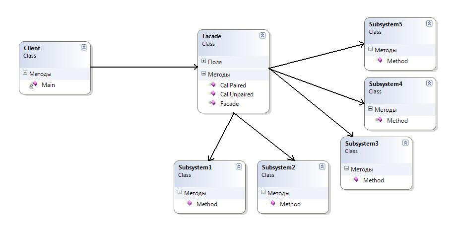 Diagram for facade pattent. Created in VisualStrudio